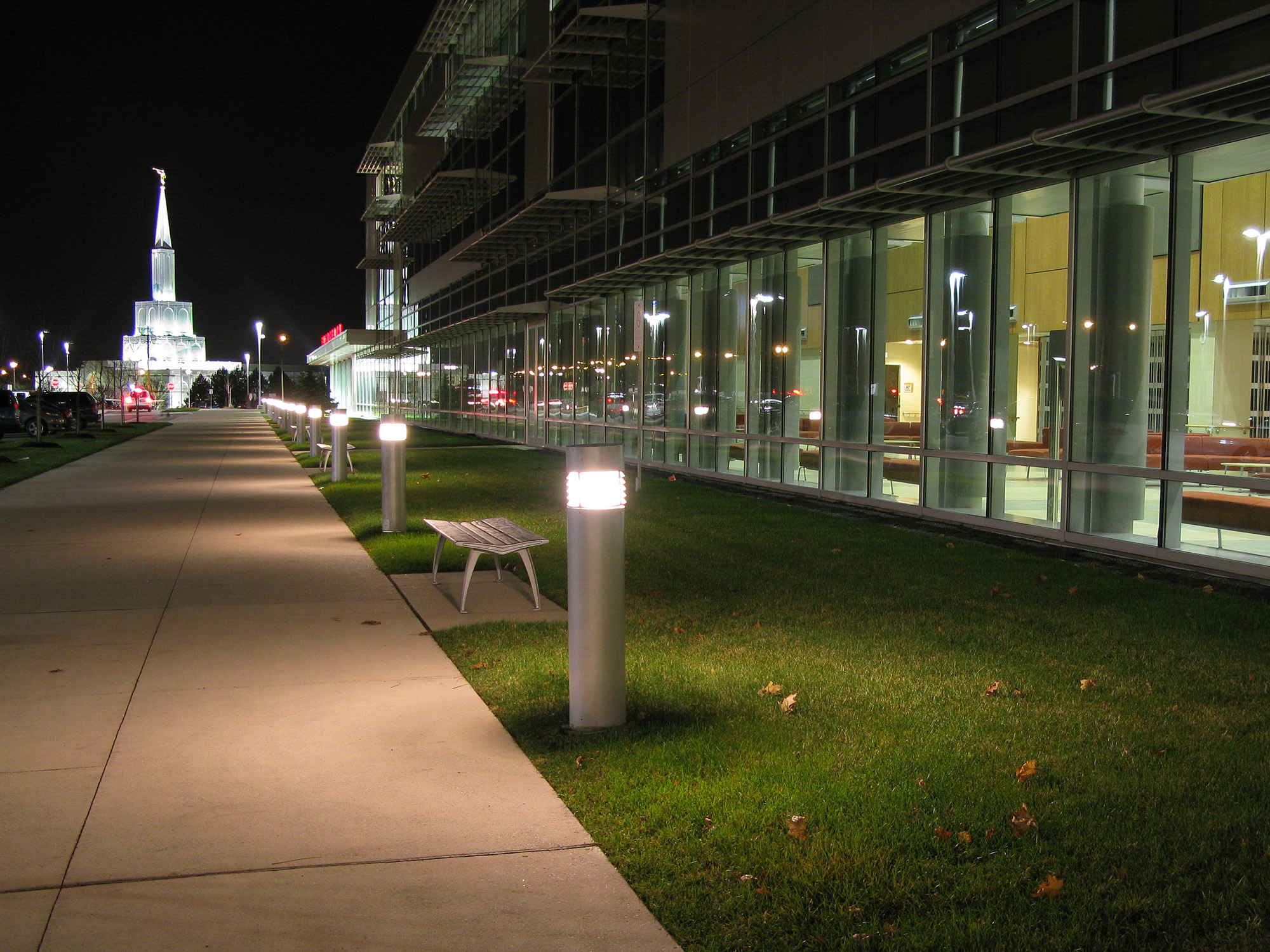 Brampton Civic Hospital at Night